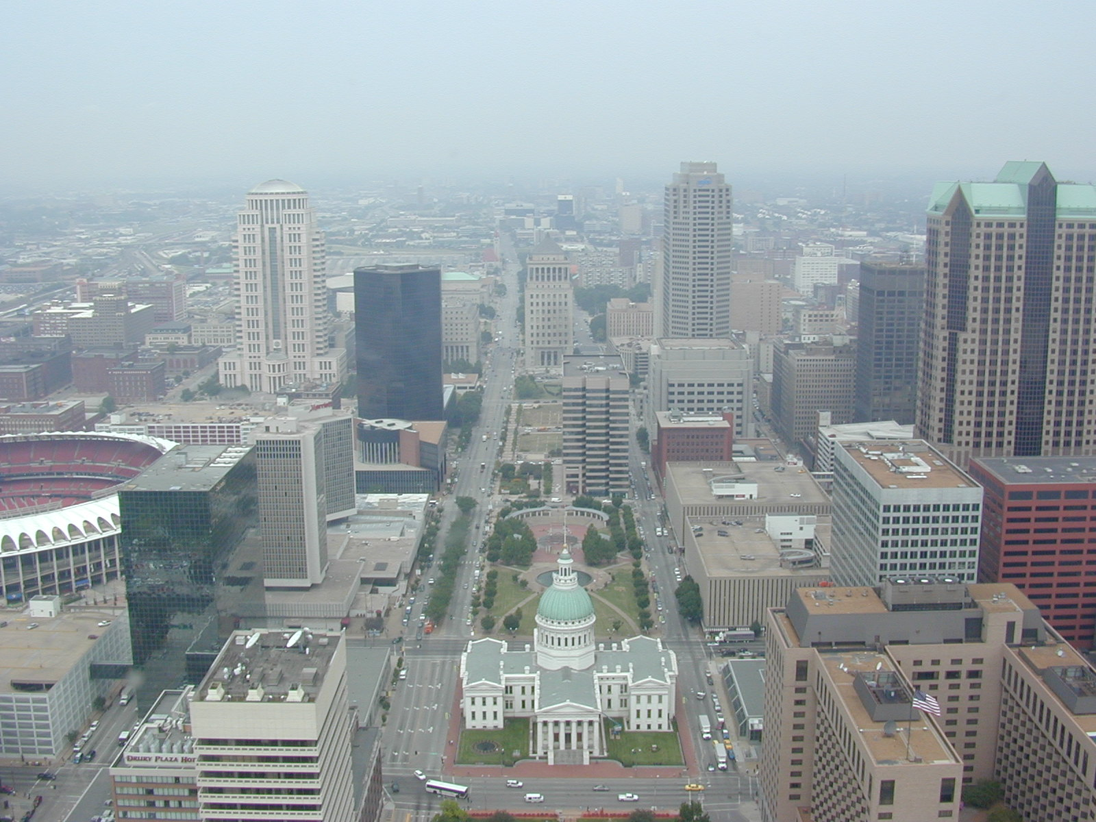 St. Louis: View from Gateway Arch Jan Kronsell, July 2004